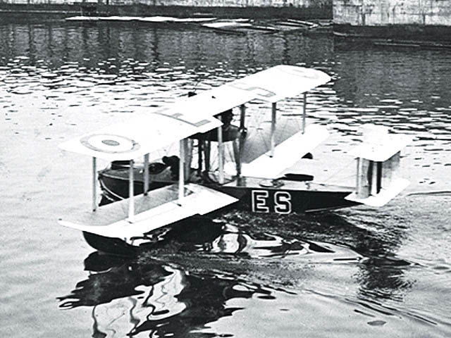 Vickers Viking